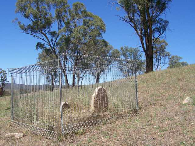 Military Station archaeological site: Grave of Eliza Rodd